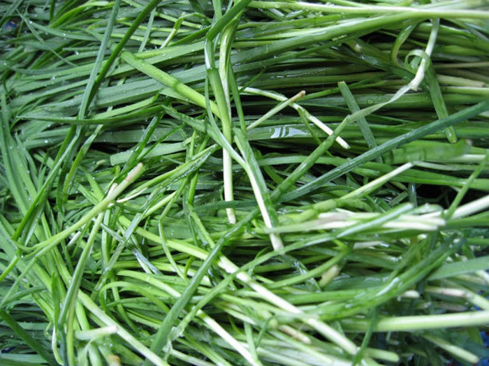 Garlic chives (Allium tuberosum) prepared for buchu-buchimgae (garlic chive pancake)